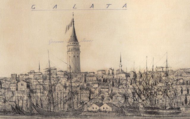 Galata circa 1855. One of the panoramic drawings of Constantinople executed by British naval officer Montague B. Dunn at the time he was stationed in that city during the Crimean War.